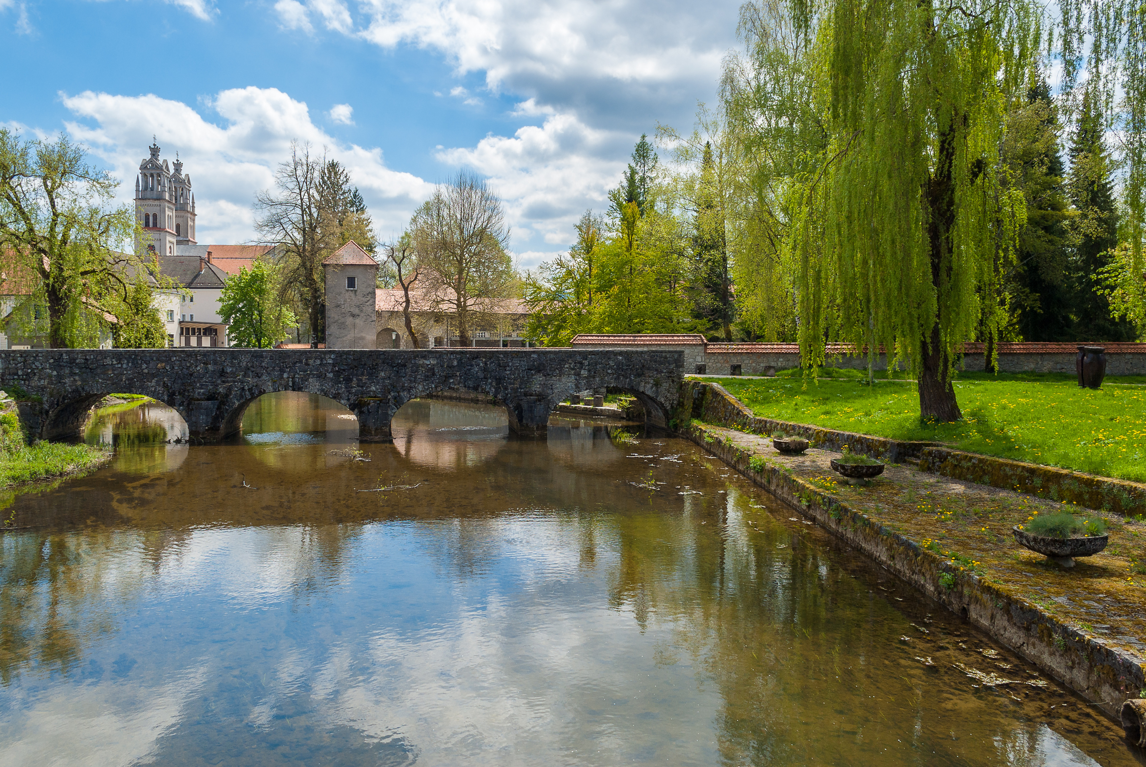 View of Ribnica, Slovenia. On the left is the Church of St. Stephen, right is Ribnica Castle.